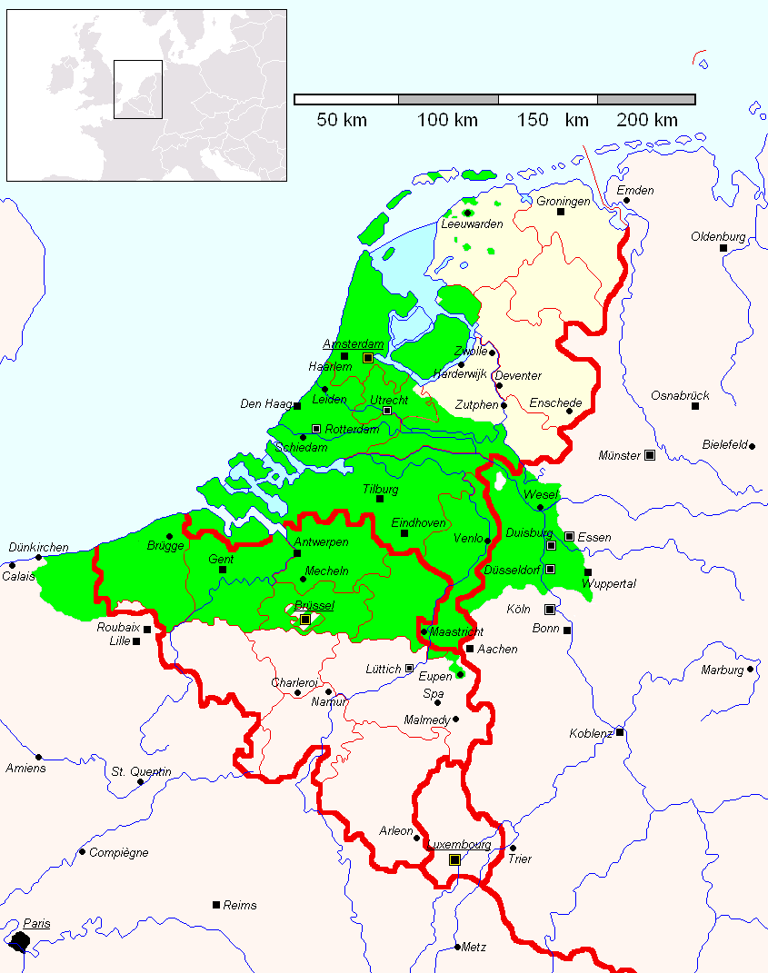 Map with the position of Low Frankish shown, including the Low Saxon area that uses the Dutch standard language as the language of culture.